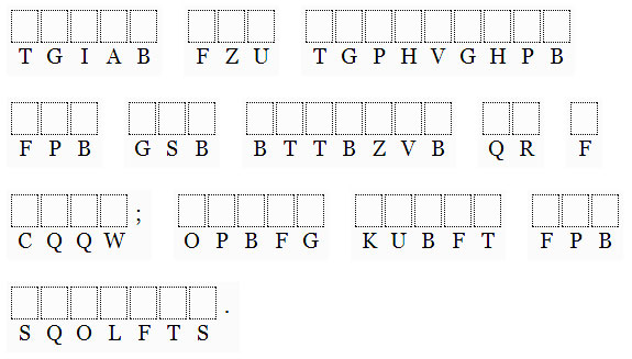 Example cryptogram taken from